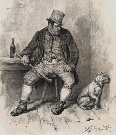 Reproduced from a c.1870s photogravure illustration to Charles Dickens's Oliver Twist